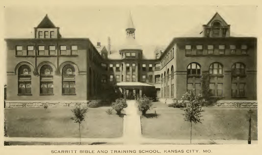 Photograph of the Scarritt Bible and Training School, Kansas City, Missouri - established in 1892 for the training of women missionaries and deaconesses of the Southern Methodist Church. The faculty and students were moved to Nashville in 1923 with a rechartering of the school as the Scarritt College for Christian Workers. This image was taken from the photograph after page 70 of the 1928 biography by Mrs. R.W. MacDonell of suffragist and Southern Methodist missionary leader Belle Harris Bennett.